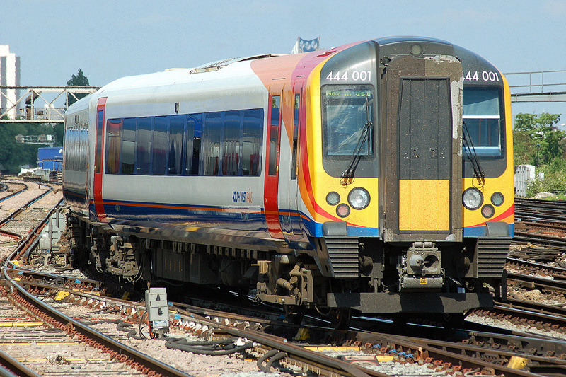 South West Trains 444001 approaches Clapham Junction.